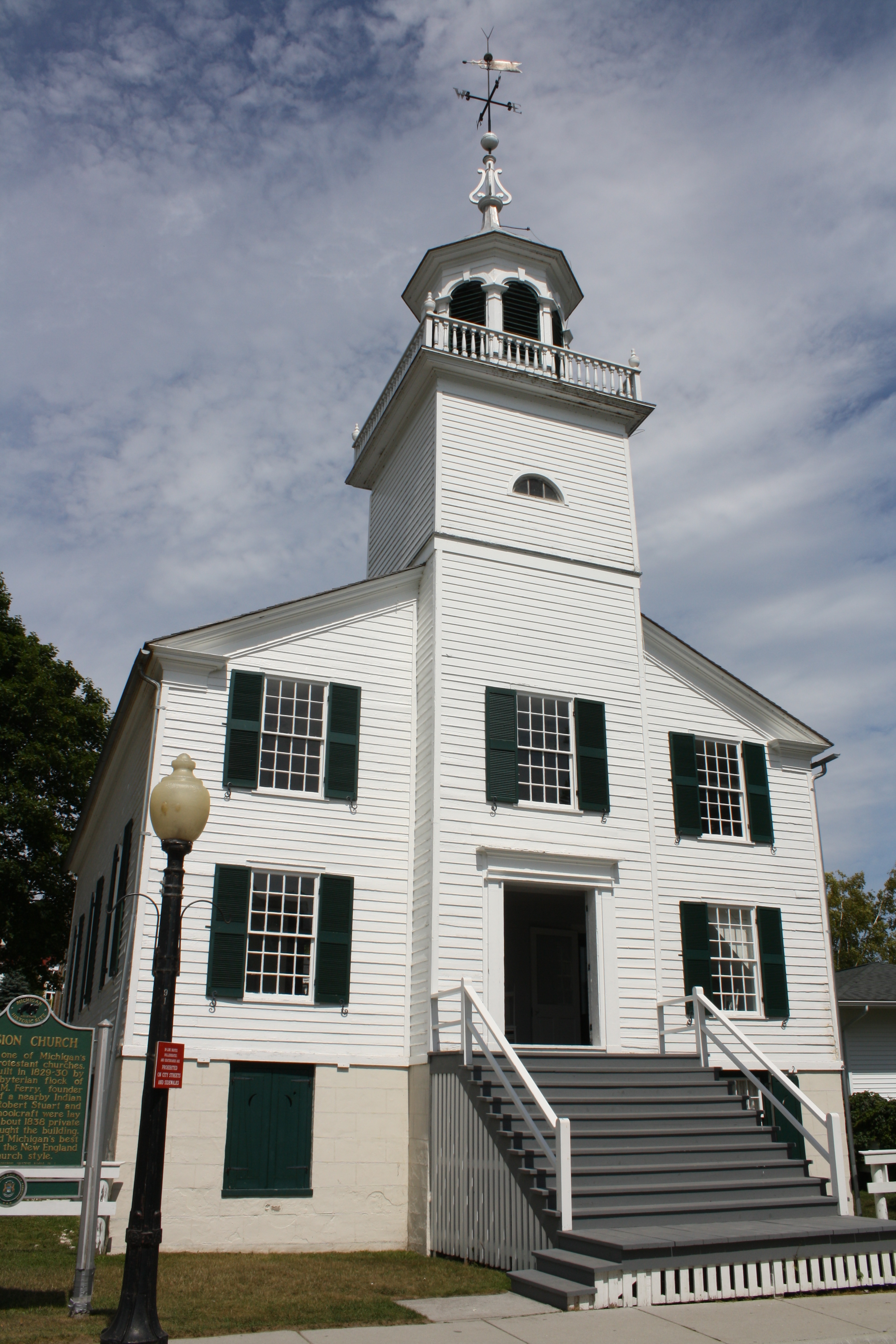 Front facade of the Mission Church — located along Huron Street in Mackinac Island, Michigan. Built in 1829 in the New England Colonial Revival style, it is listed on the National Register of Historic Places.